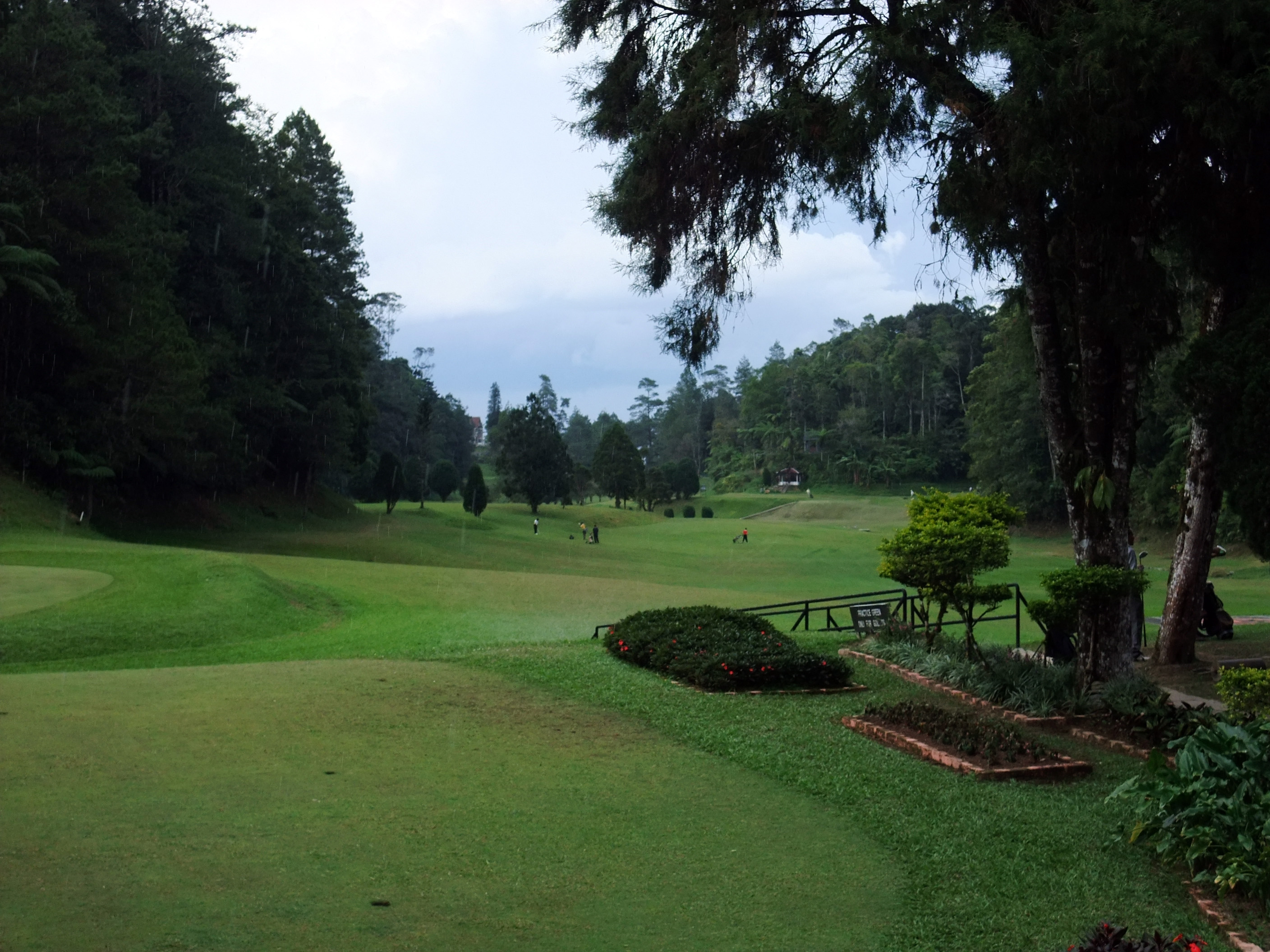 Golf course on Fraser's Hill